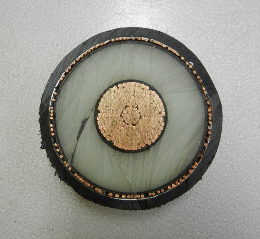 High voltage power cable